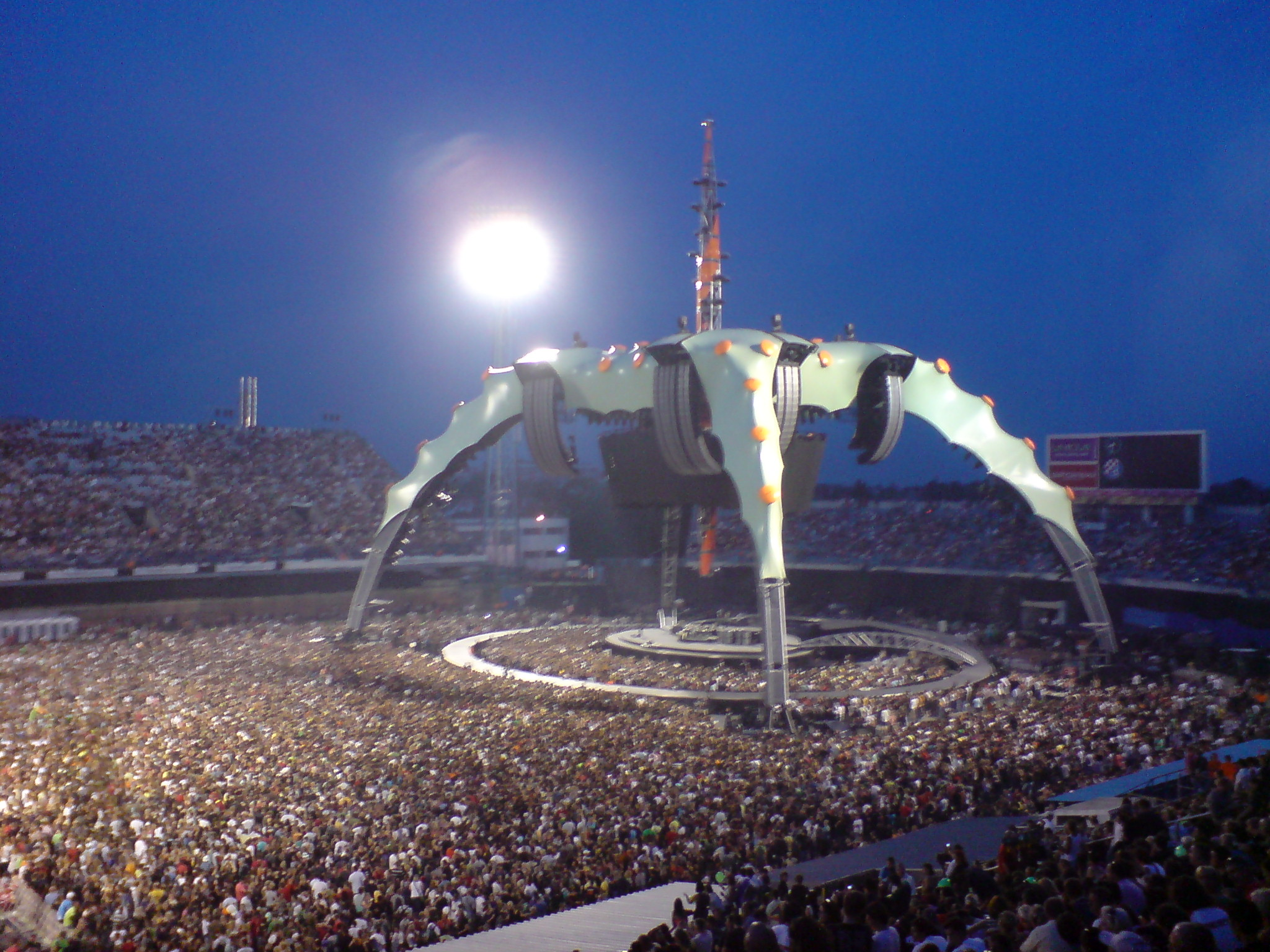 U2 360 tour stage, before one of the 2 Zagreb concerts